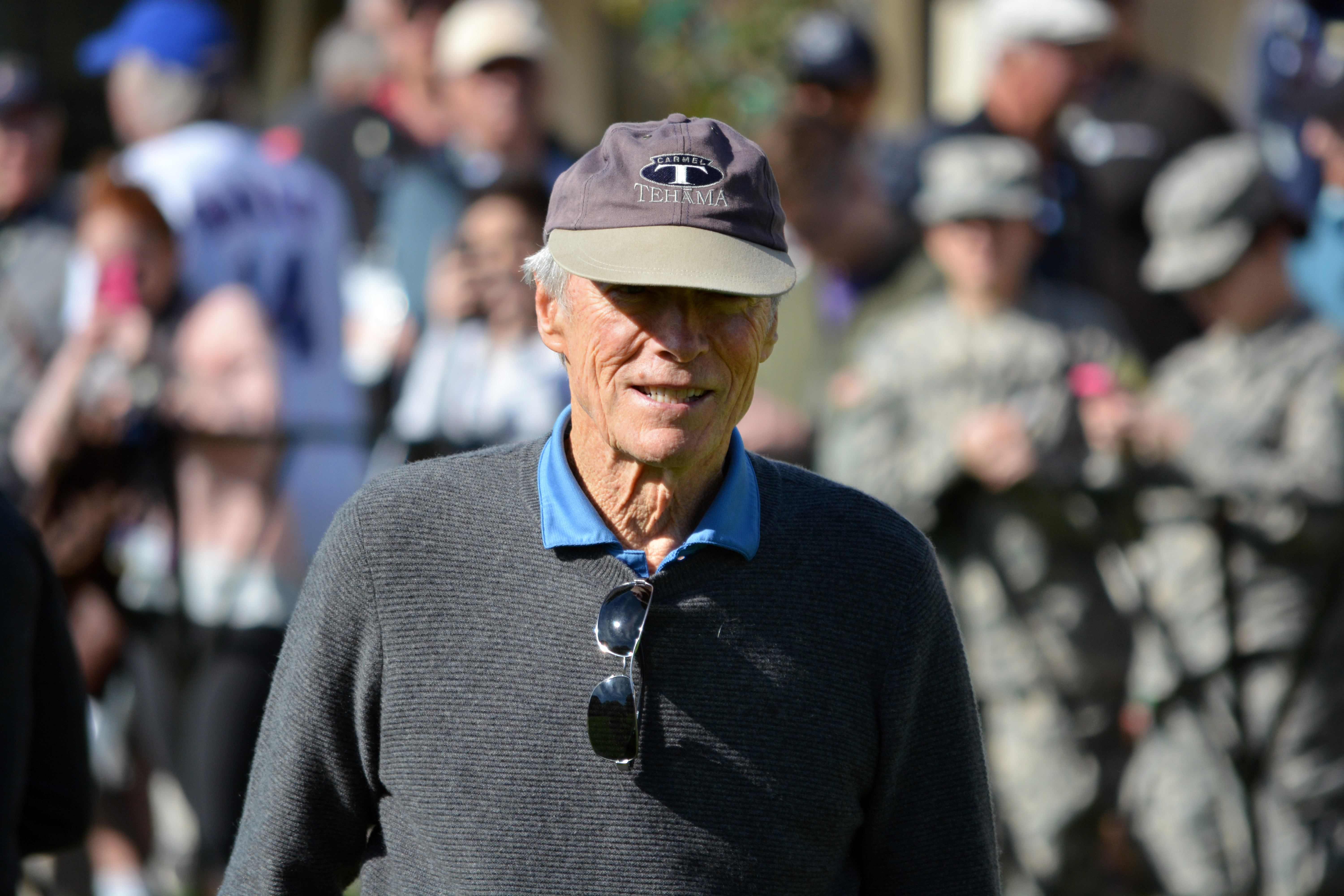 PRESIDIO OF MONTEREY, Calif. -- Hundreds of service members from Monterey county and beyond converged at the Pebble Beach Golf Links Feb. 11 to watch celebrities golf in a charity fundraising event as part of the AT&T Pebble Beach National Pro-Am. Free tickets were made available to service members all week long at the AT&T PB courtesy of Birdies for the Brave, a PGA Tour-supported military outreach charity founded in 2006 by Phil and Amy Mickelson. Notable stars such as Chris Berman, Josh Duhamel, Kenny G, Andy Garcia, Charles Kelley, Huey Lewis, Bill Murray, Jake Owen, Joe Don Rooney, Ray Romano, Clay Walker, and Clint Eastwood golfed five holes at the world famous Pebble Beach golf course to raise money for charities during the 3M Celebrity Challenge. Berman and Kenny G used military members as honorary caddies during the event. PHOTO by Gary Harrington, DLIFLC Public Affairs.